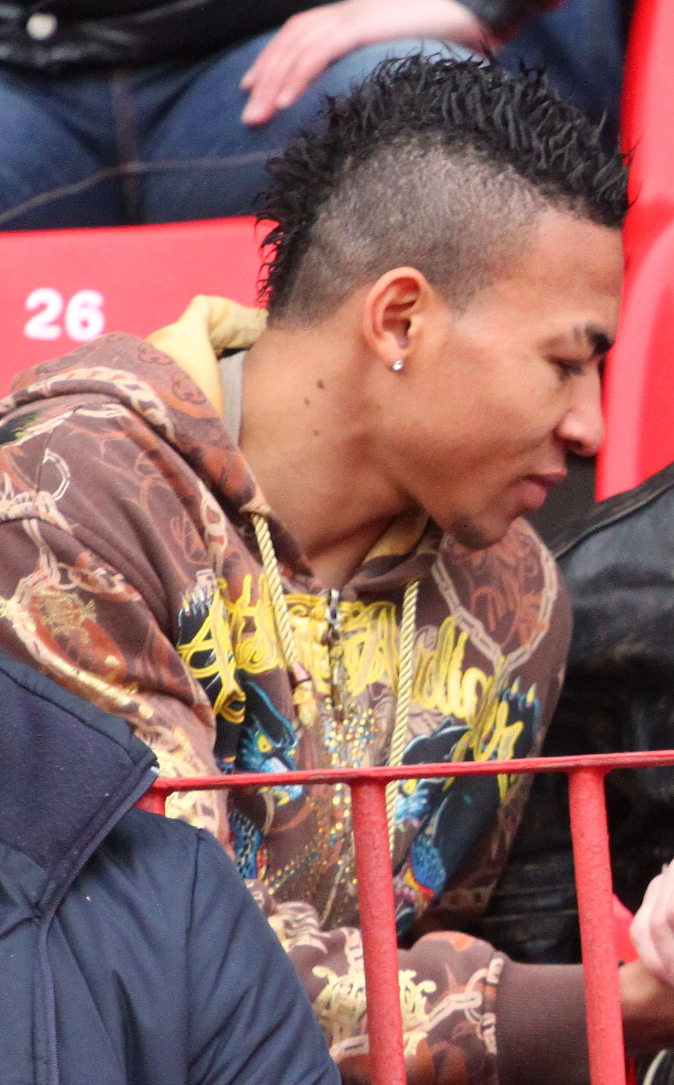 Anicet Andrianantenaina Abel (born 13 March 1990 in Antananarivo) or simply Anicet is a Malagasy football player, who currently plays for Bulgarian A PFG side Chernomorets Burgas as a second striker.